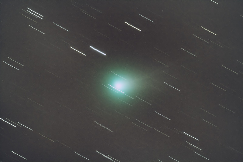 It's shaping up to be a good season for comets - there are now four of them rising in the East before dawn, promising to put on a decent show in the coming months. After a bit of visual comet-spotting I had a pop at imaging Comet Lovejoy (C/2013 R1), here are a couple of versions of a half-hour exposure guided on the comet. Comet Lovejoy (C/2013 R1), 13th November 2013. Subs: 1 light @ 1800s, no darks or bias frames, ISO800. Levels tweaked to show the tails. 1000D on the 6" R-C, guided with PHD.